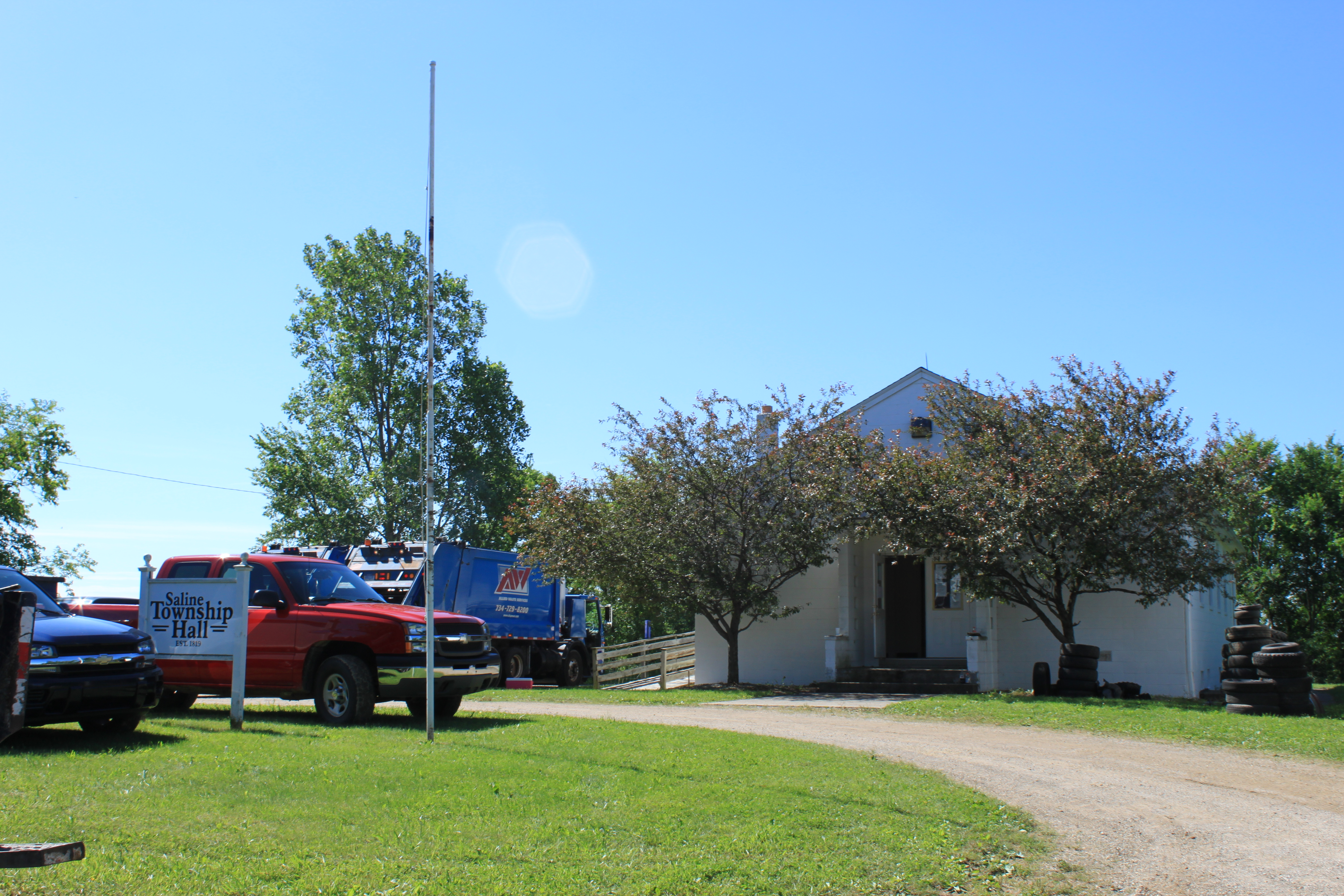 Saline Township Hall, Michigan